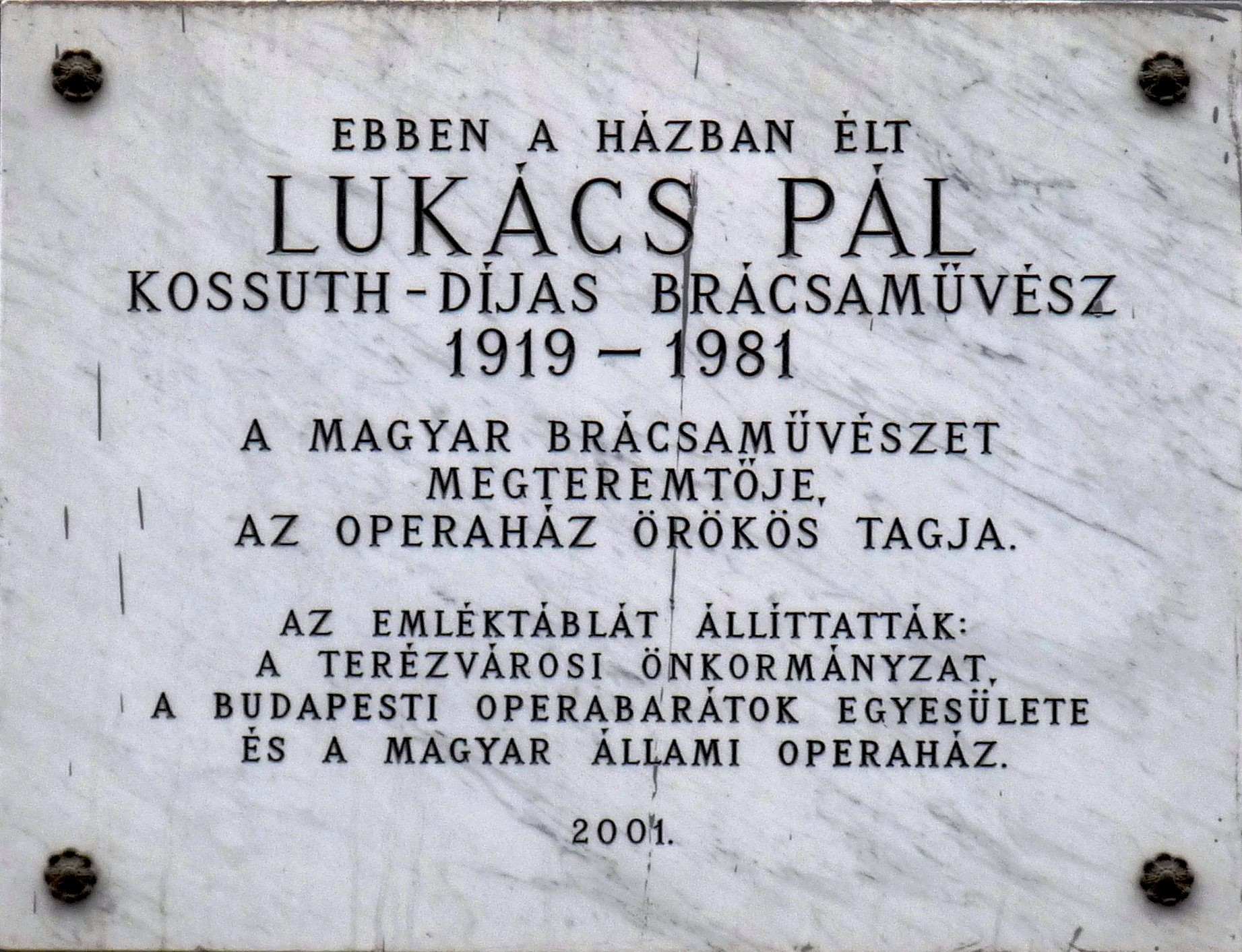 Pál Lukács (violist) commemorative plaque in Budapest District VI, Jókai Street No 1.